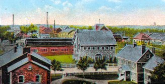 Calumet & Hecla, Michigan, 1910s